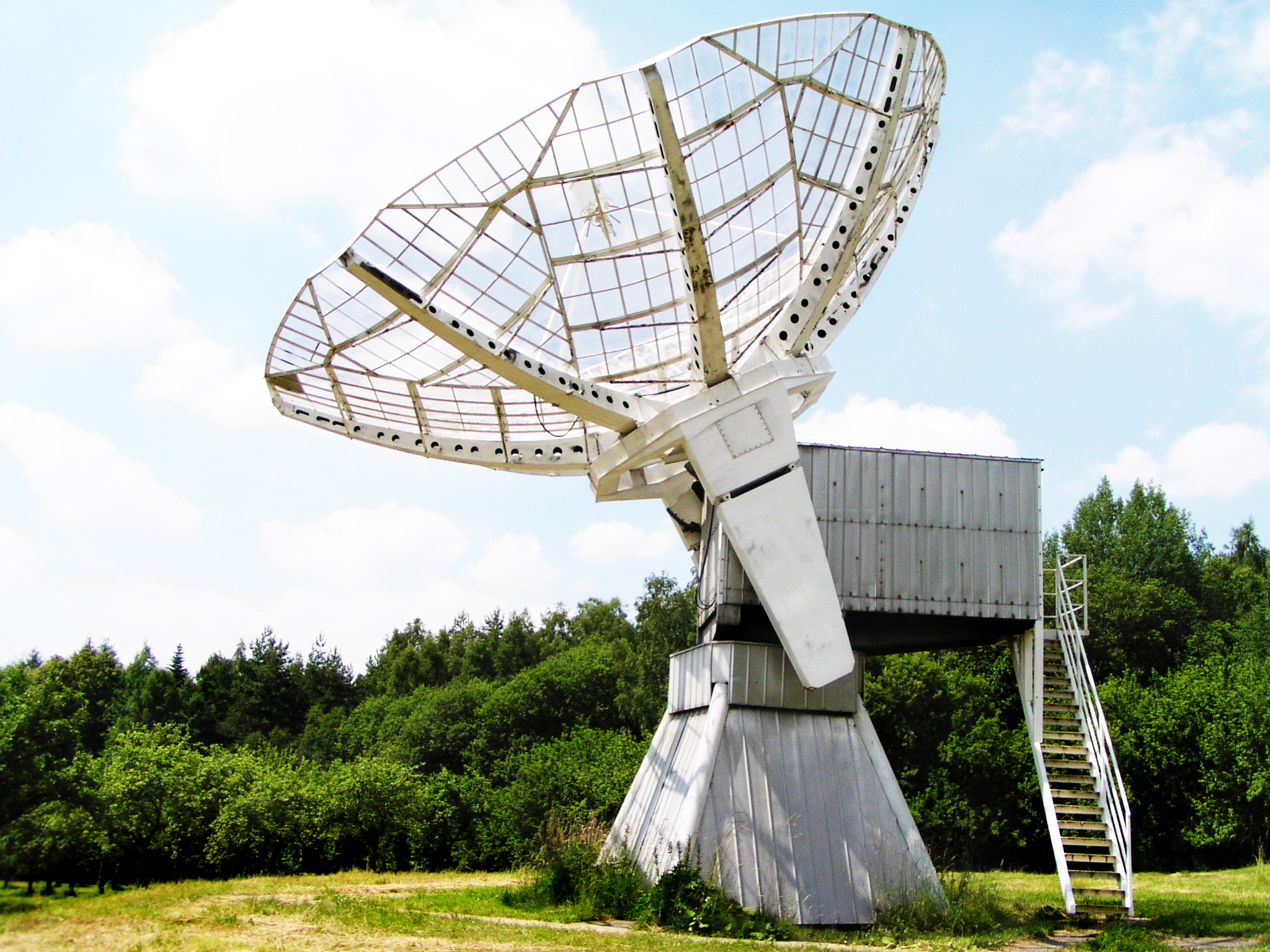 10-m Solar radiotelescope at the Czech Astronomical Institute in Ondřejov